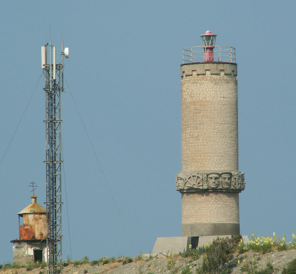 View from the Utrish dolphinarium to the memorial lighthouse and a chapel on Utrish island